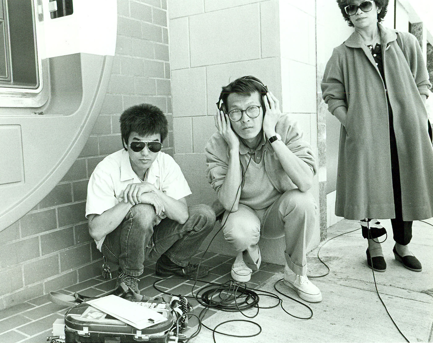 Sound recordist Curtis Choy (left) on location for Wayne Wang's 1985 film, "Dim Sum: A Little Bit of Heart" in front of 919 Clement Street in the Richmond District of San Francisco, California 1983. Film director Wayne Wang (center) and actor Laureen Chew at right. Photo by Nancy Wong